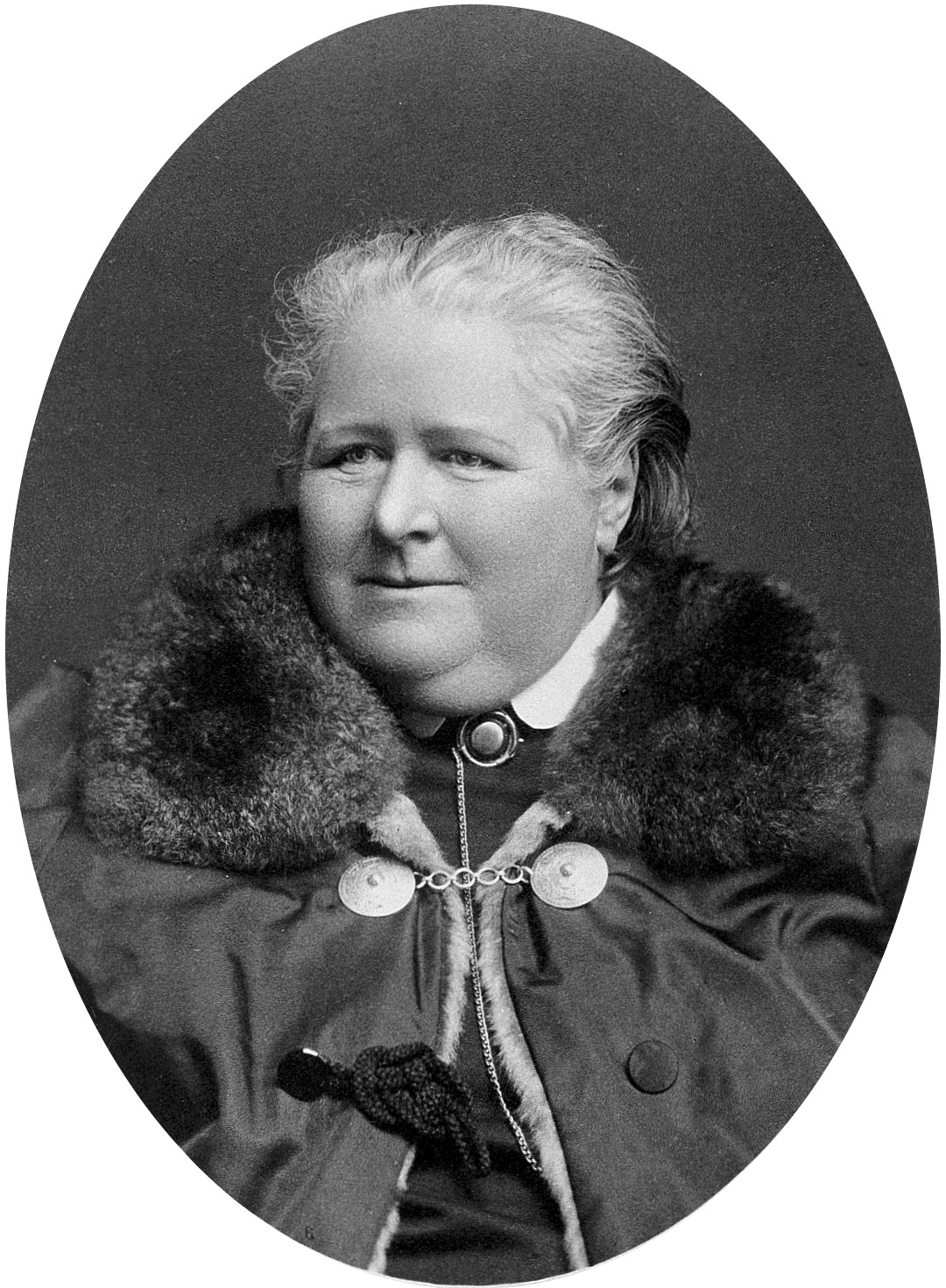 Portrait. Image from frontispiece of autobiography "Life of Life of Frances Power Cobbe, by Herself, Volume 1." Bentley, London, 1894. Frances Power Cobbe (4 December 1822 – 5 April 1904) was an Irish writer, social reformer, and suffragist. Founder of the British Union for the Abolition of Vivisection (BUAV) in 1898, and was a member of the executive council of the London National Society for Women's Suffrage